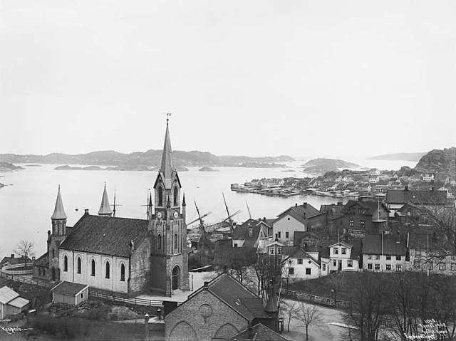 Kragerø with the church 5th of May 1902